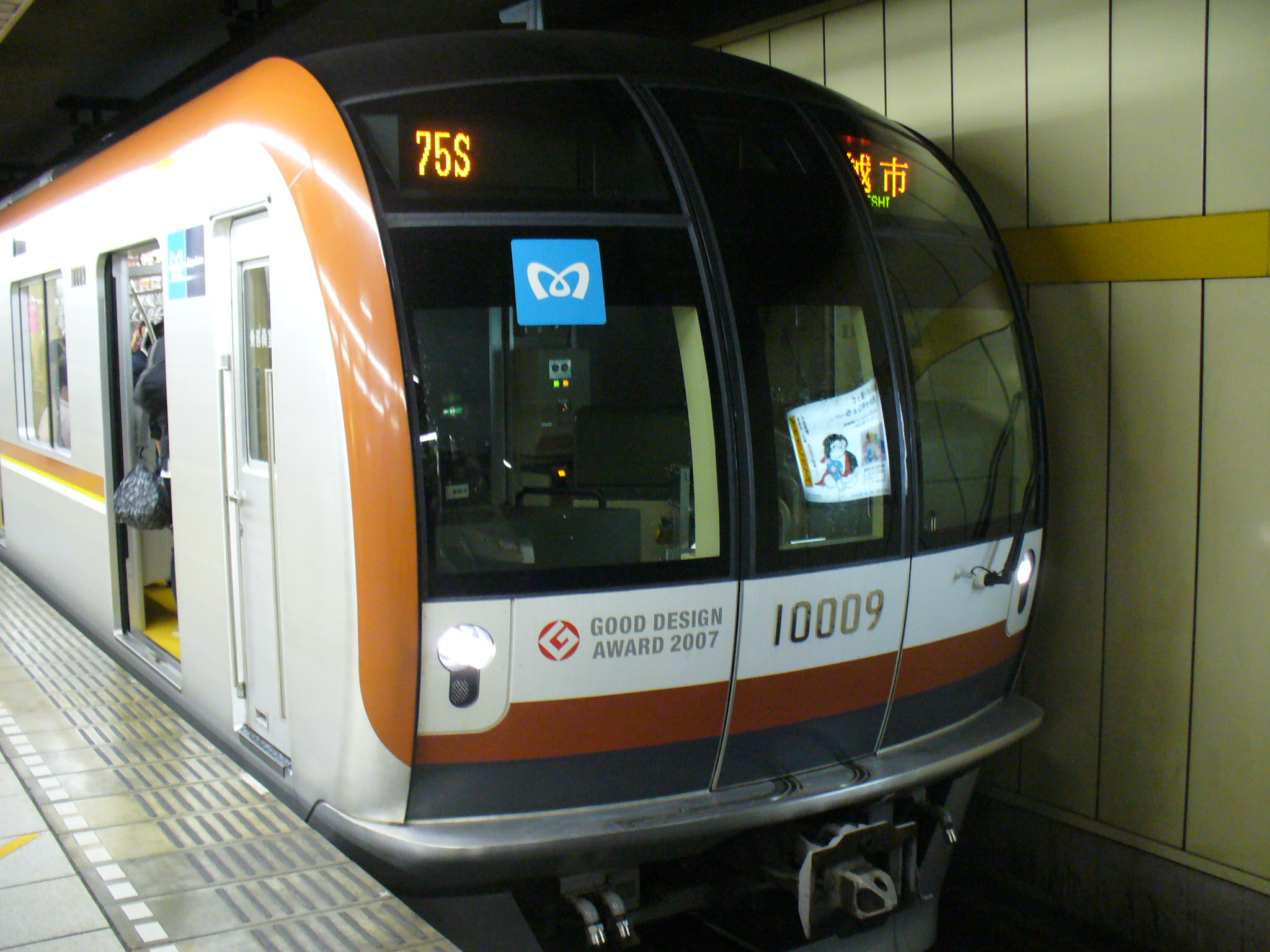 Tokyo Metro 10000 series (with good design award sticker) (Taken at Nagatacho Station)